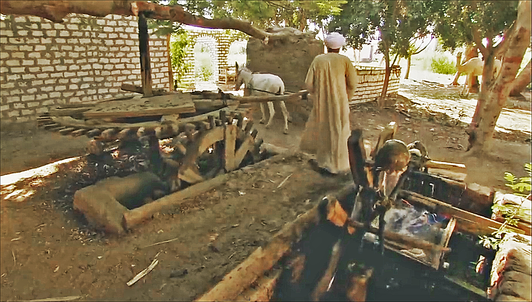 Family Chadouf with deported blades in Upper Egypt.